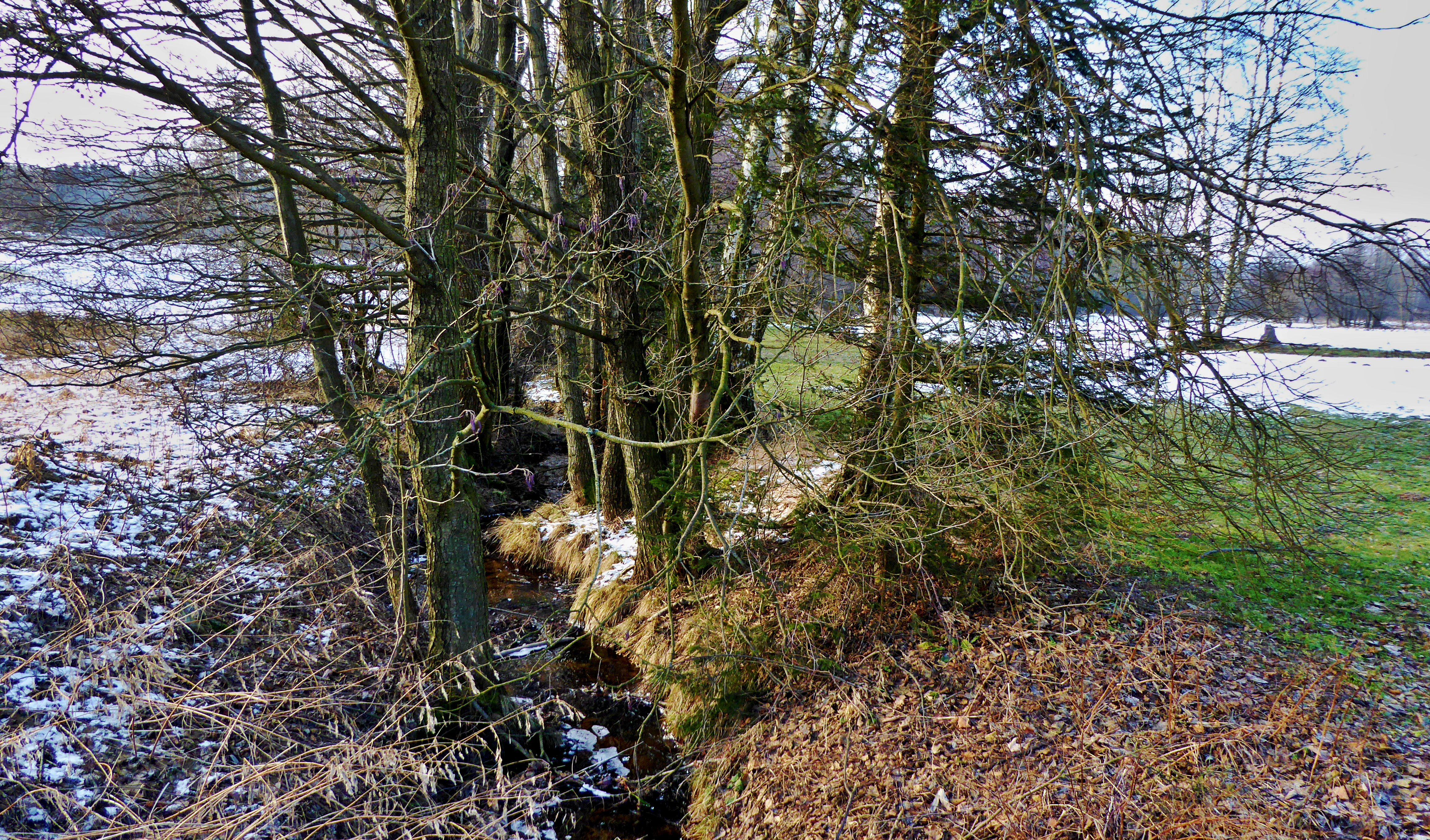 The springs area of "Chrudimka" river, torrent under the forest locality Humperky near small village Filipov on the cadastral territory of the municipality Kameničky. The stream at an altitude of 654 m (according to contour line in the map). Photo locality: Czechia, Pardubice Region, municipality Kameničky, the village Filipov, "Kameničská" Highlands, source from the spring of the river "Chrudimka".